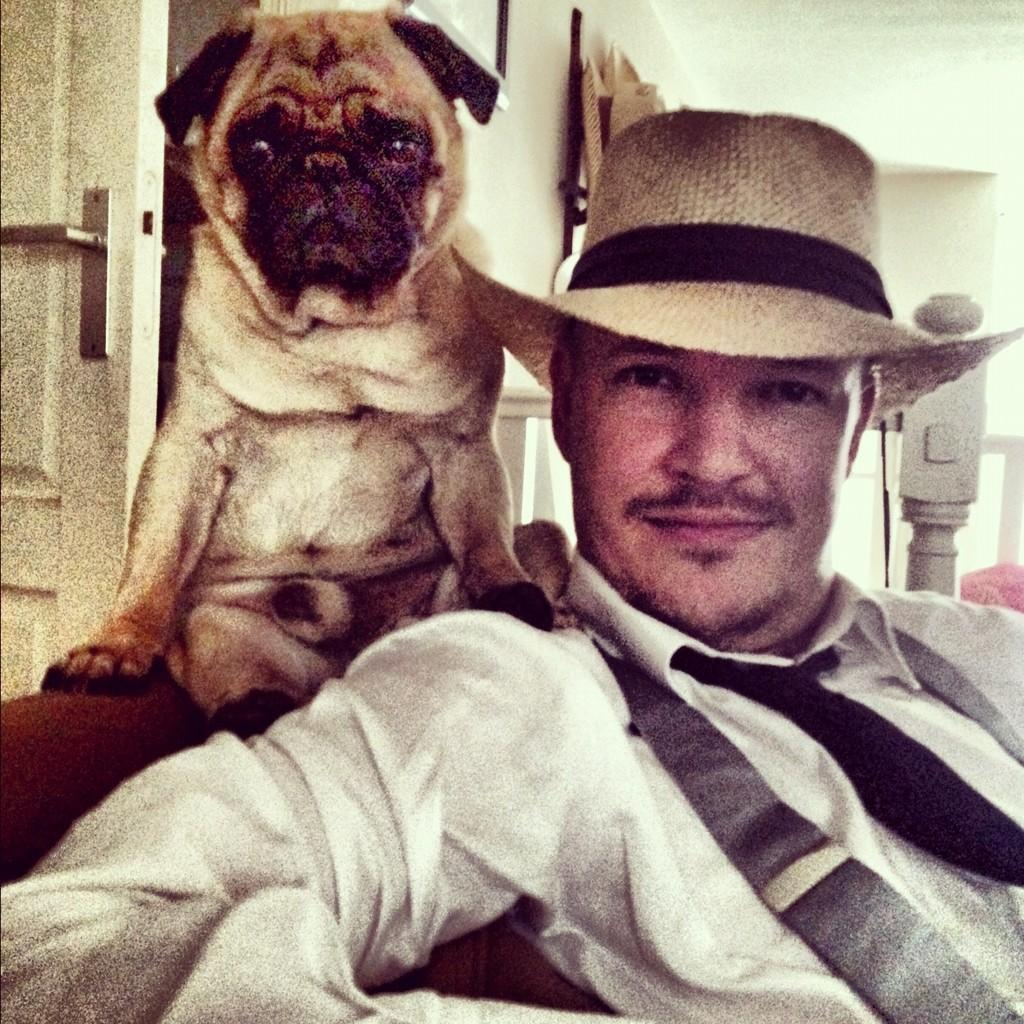 Tom Six, Director and creator of the (in)famous Human Centipede series